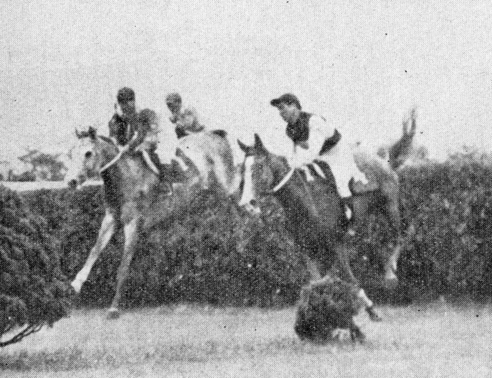 Kyoto Daishogai Spring(1953)